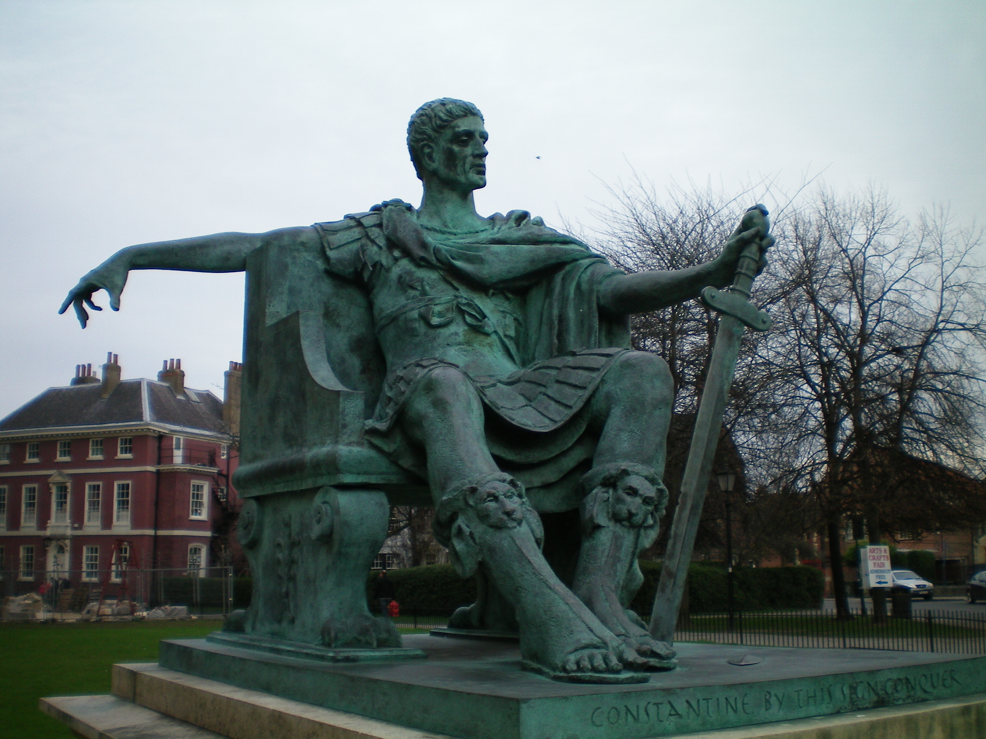 Constantine the Great by Phillip Jackson at York Cathedral, England.